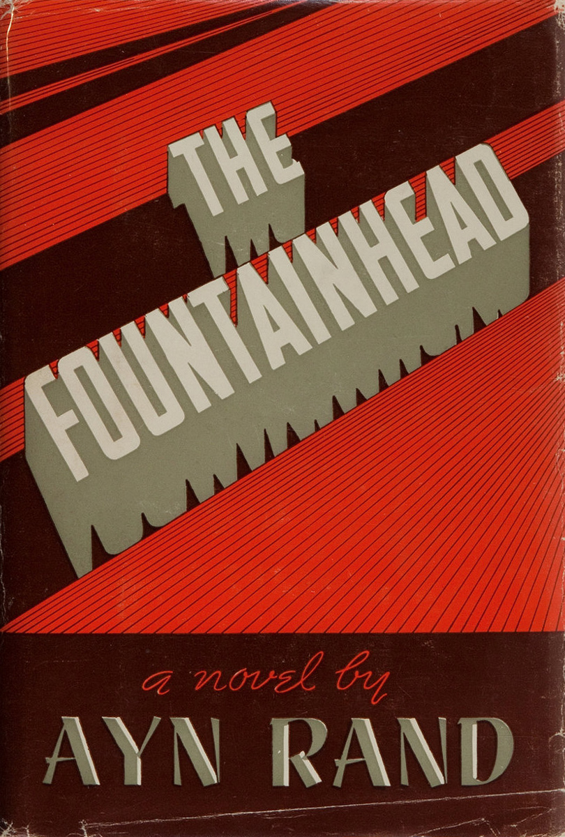 Cover design from the first-edition dust jacket of the 1943 novel The Fountainhead by the Russian-American writer Ayn Rand.